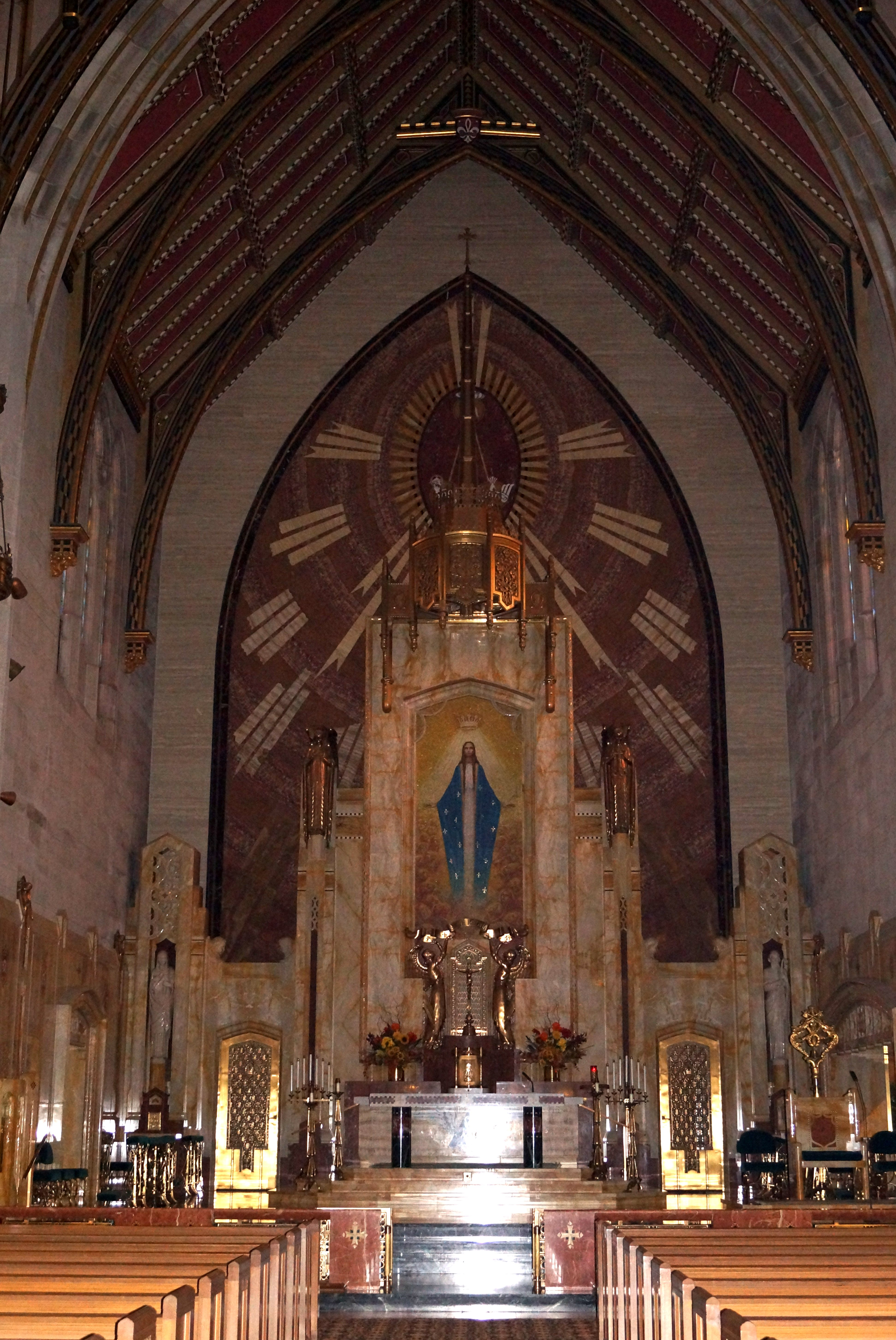 Altar of Basilica of Queen of All Saints, Chicago, Illinois